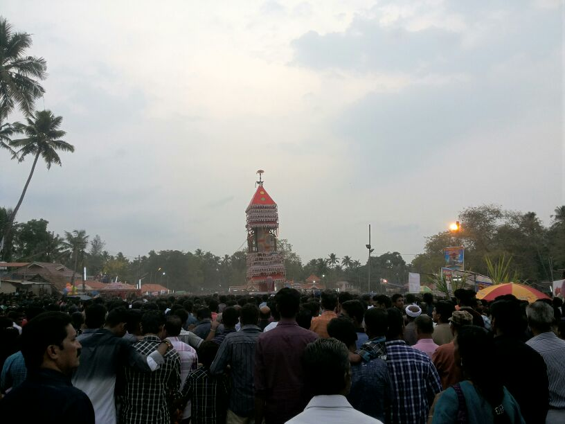 Puttingal temple festival is one of the main festivals happening in South Kerala every year. The fireworks competition of this temple is very famous, which is conducting on the final day of festival every year.